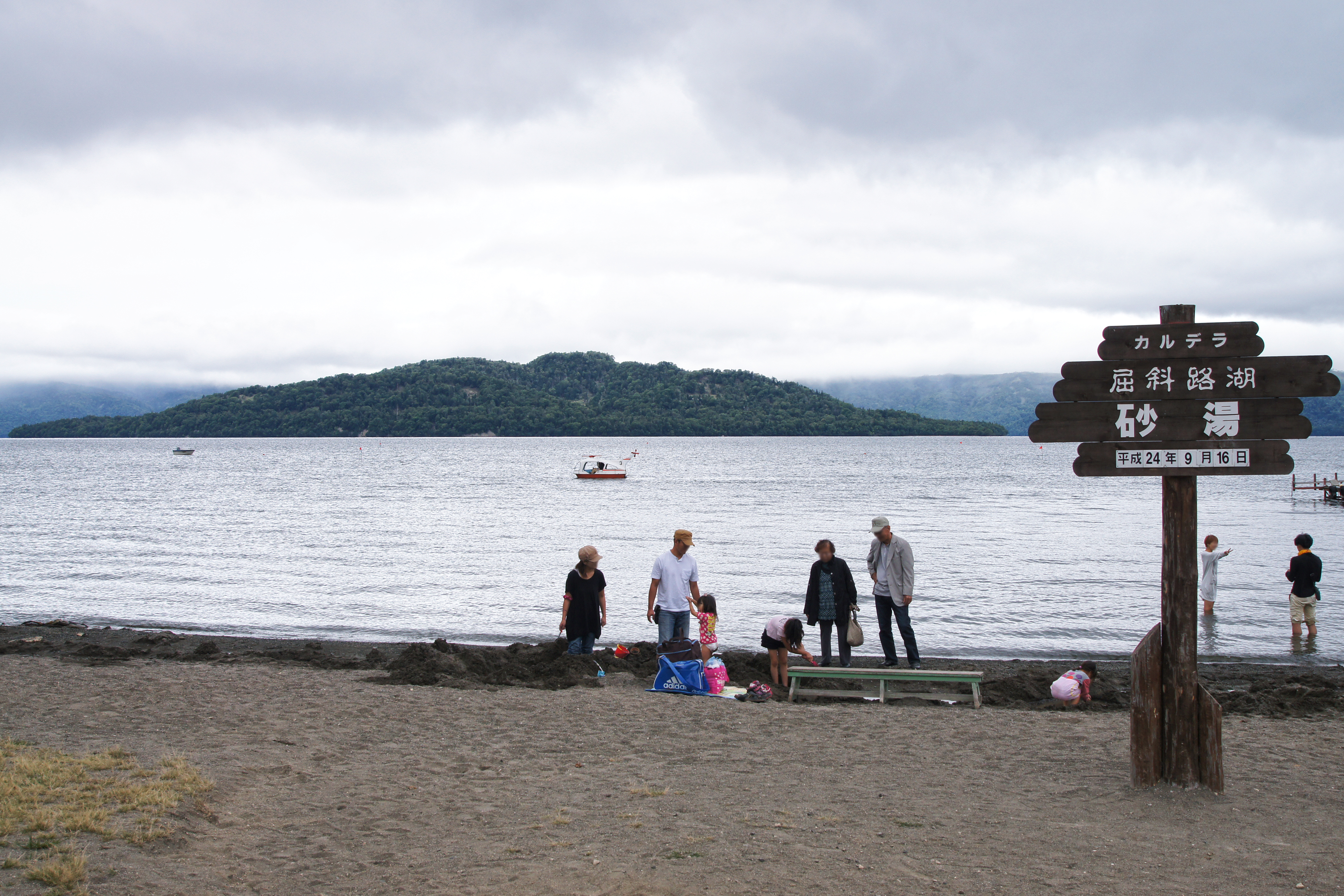 Lake Kussharo is the lake in Teshikaga, Hokkaido prefecture, Japan